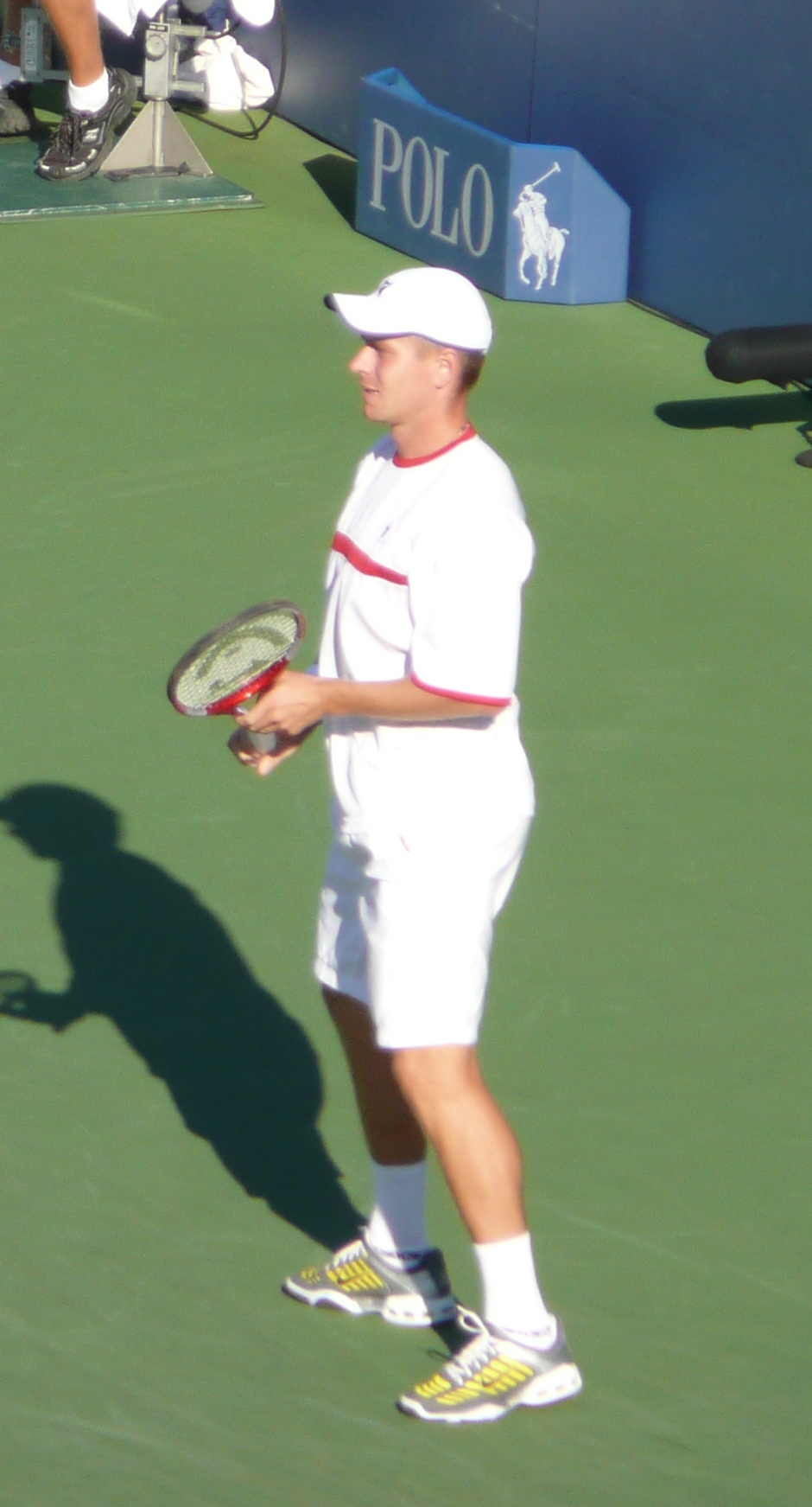 Michal Mertinak preparing to receive a serve at the 2008 US Open (partnering Lovro Zovko, versus the Bryan brothers). This has been cropped for suitability on Mertinak's profile picture.